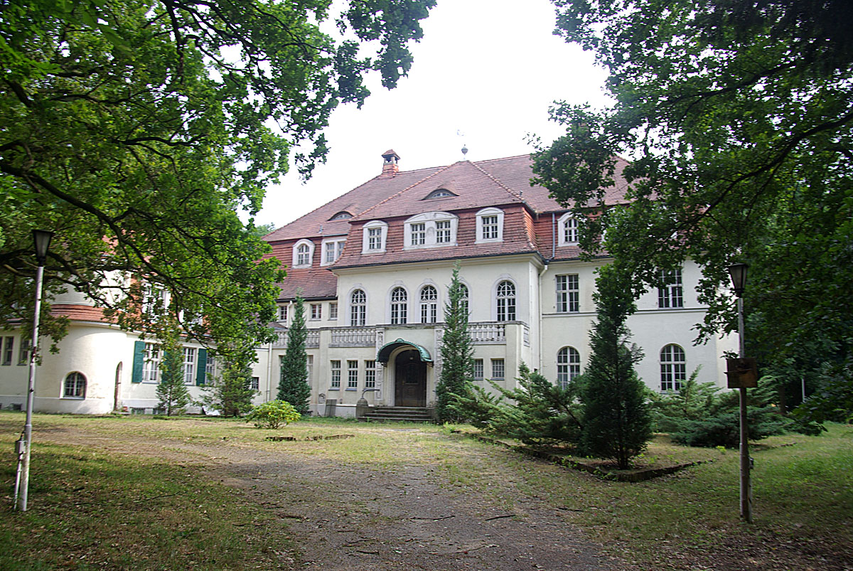 Old manor house in Bagenz, Brandenburg, Germany